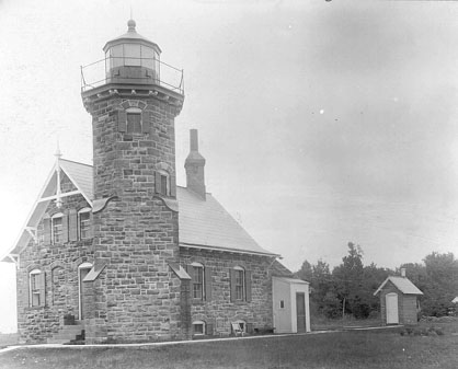 Public Domain statement here; The Sand Island Lighthouse is a lighthouse located on the northern tip of Sand Island, one of the Apostle Islands, in Lake Superior in Bayfield County, Wisconsin, near the city of Bayfield.